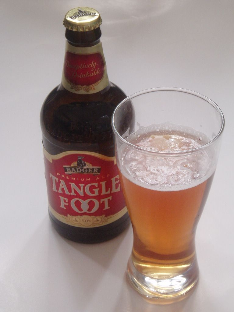 Tanglefoot, from Badger Brewery (they don't brew badgers).